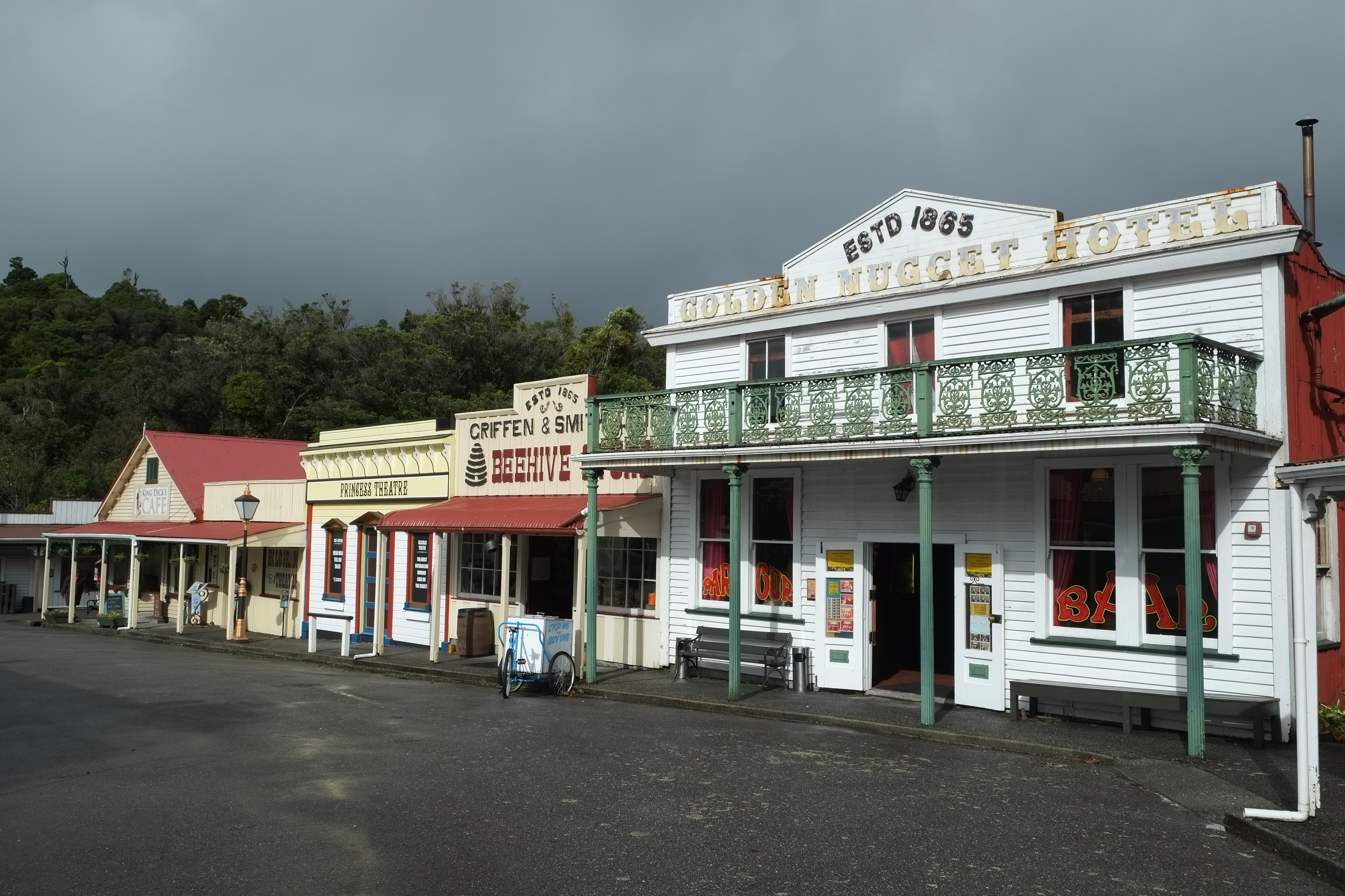 Main street of Shantytown tourist attraction in New Zealand